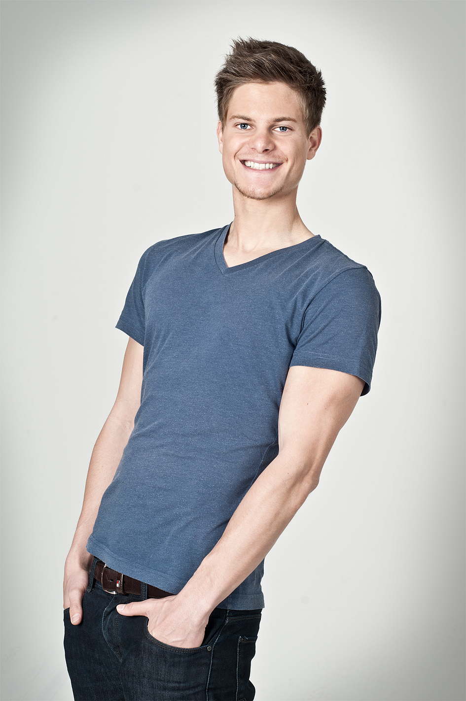 Philip Häusser is a German TV presenter and physicist.